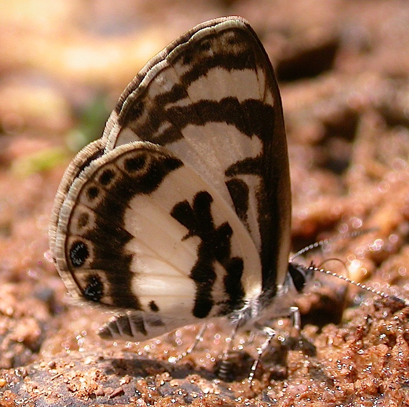 Azanus isis, Niaouli forest, southern Benin, 26 Nov 2011